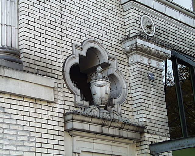 Architectural detail of Capitol Theater building in Salem, Oregon, United States. The theatre itself was torn down but the adjoining retail space remains.